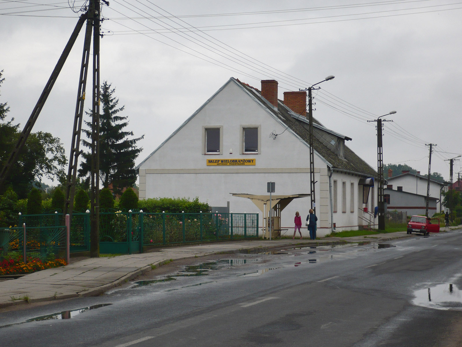 Post and bus stop in Gruta